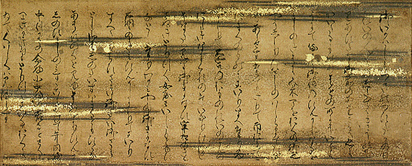 The Murasaki Shikibu Diary Emaki (紙本著色紫式部日記絵巻, shihonchoshoku Murasaki Shikibu nikki emaki). This is part of the handscroll located at the Gotoh Museum in Tokyo which consists of three illustrations and three pages of text. Color on paper. The scroll has been designated as National Treasure of Japan in the category paintings. 21.0cm x 51.9cm.